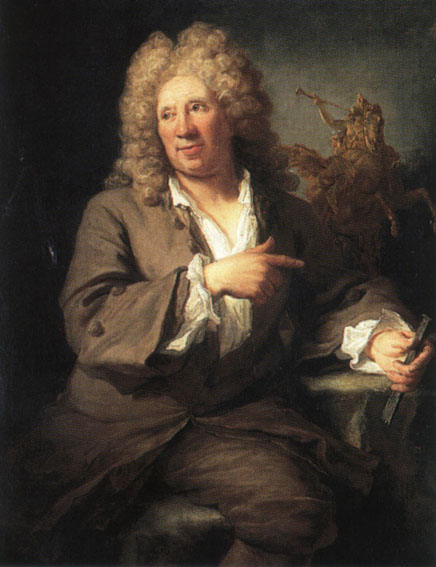 Depicted person: Antoine Coysevox (1640-1720), French sculptor